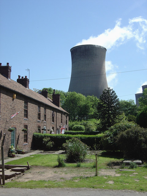 Cottage row and cooling tower A fascinating contrast in building styles